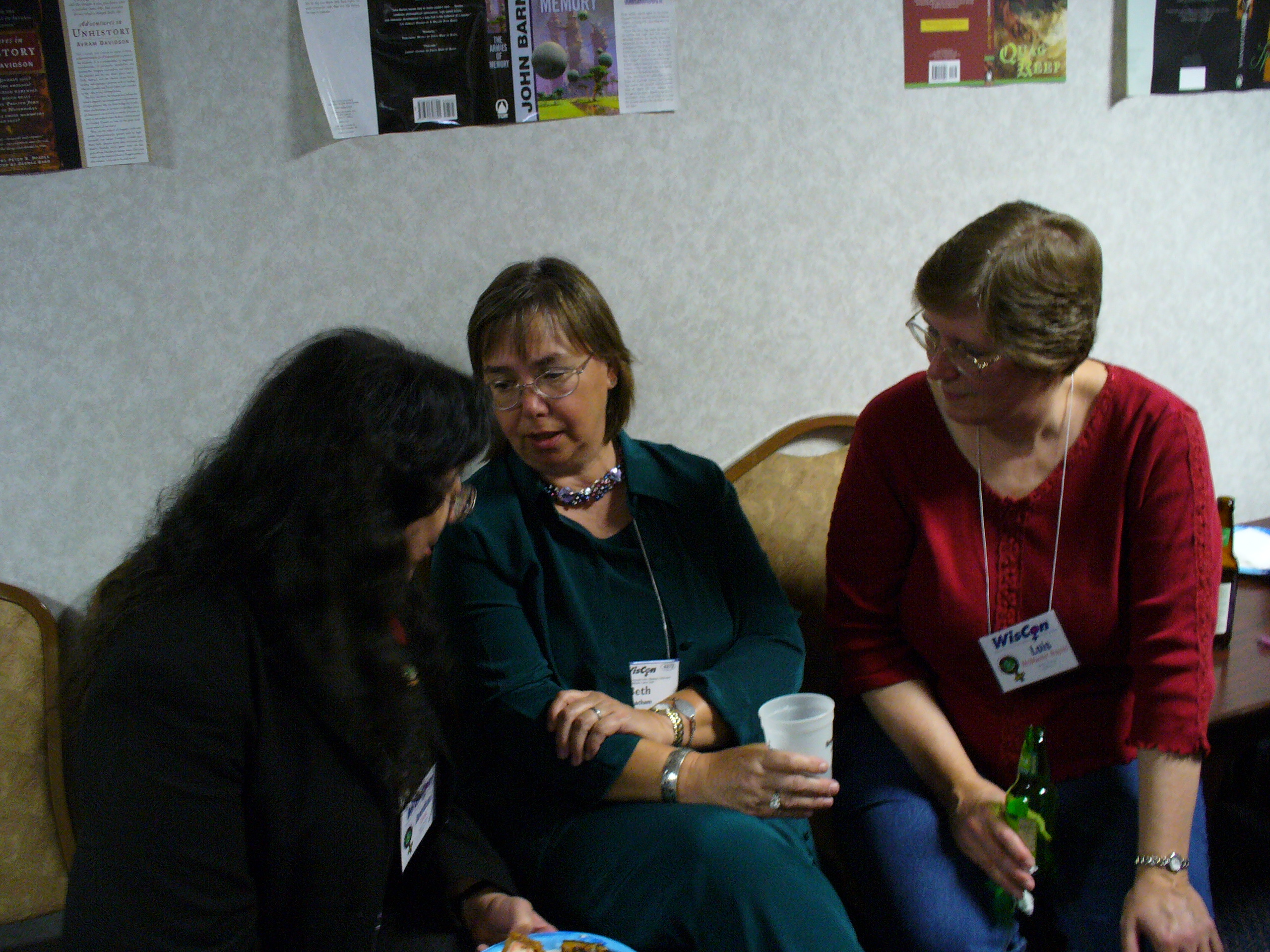 (Left to right) American born English editor and science fiction fan Avedon Carol and American science fiction authors Beth Meacham and Lois McMaster Bujold at Wiscon 30, Wisconsin science fiction convention.